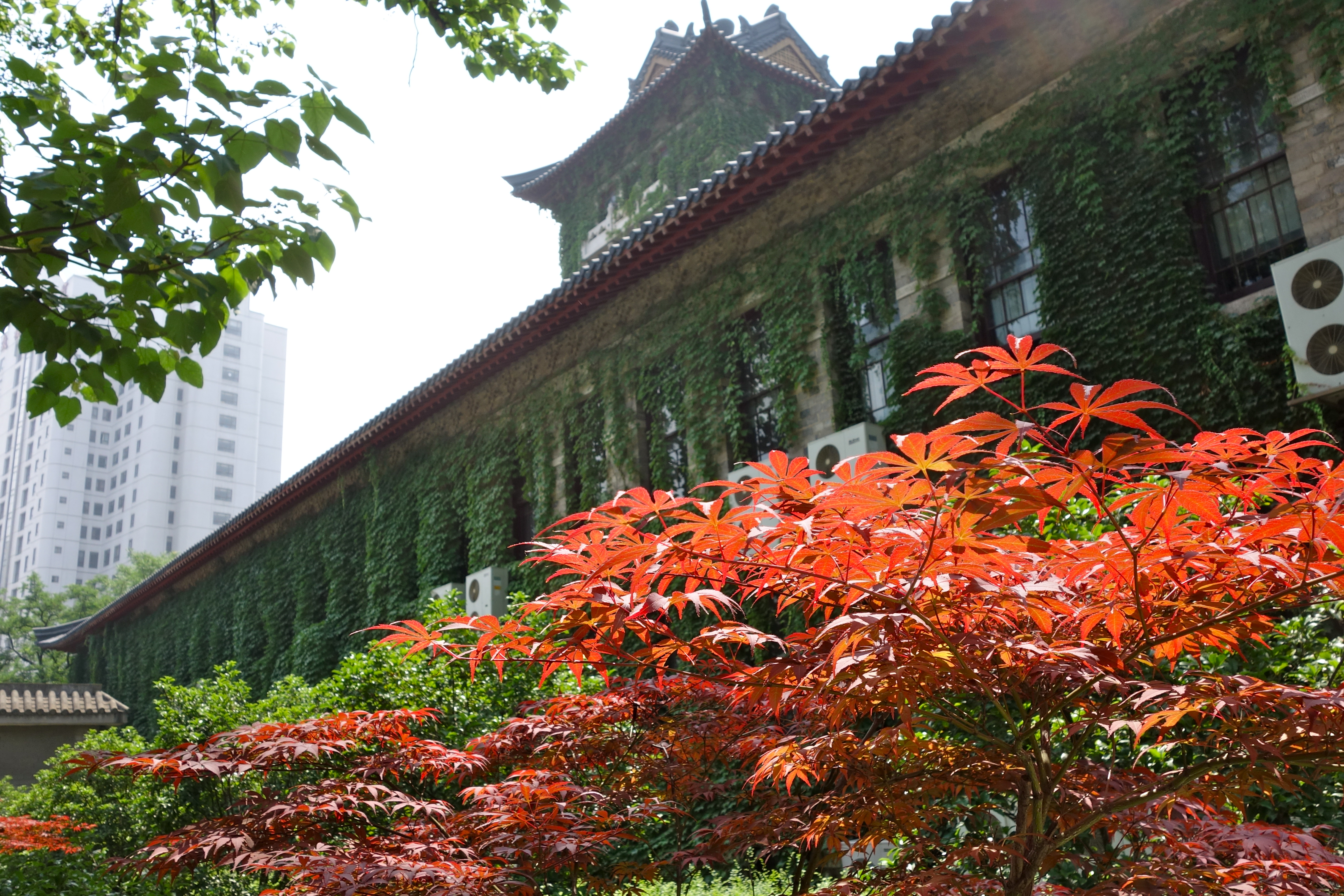 Our research team spent a day on the beautiful campus of Nanjing University.